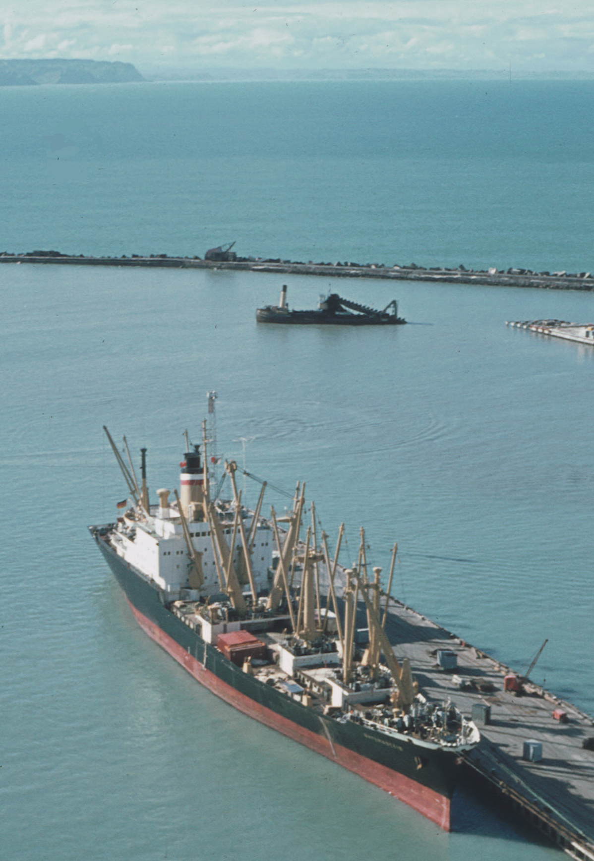 Hapag-Lloyd general cargo ship Bayernstein at the pier from the Port Napier NZ, in 1973